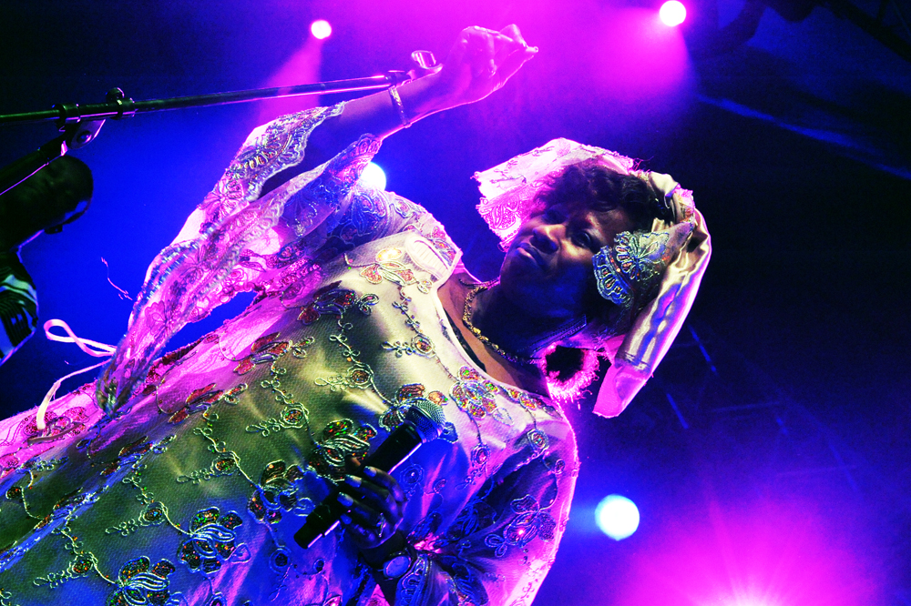 The singer of Farafina, a musical group from Burkina Faso, during a performance in Warszawa in September 2009.